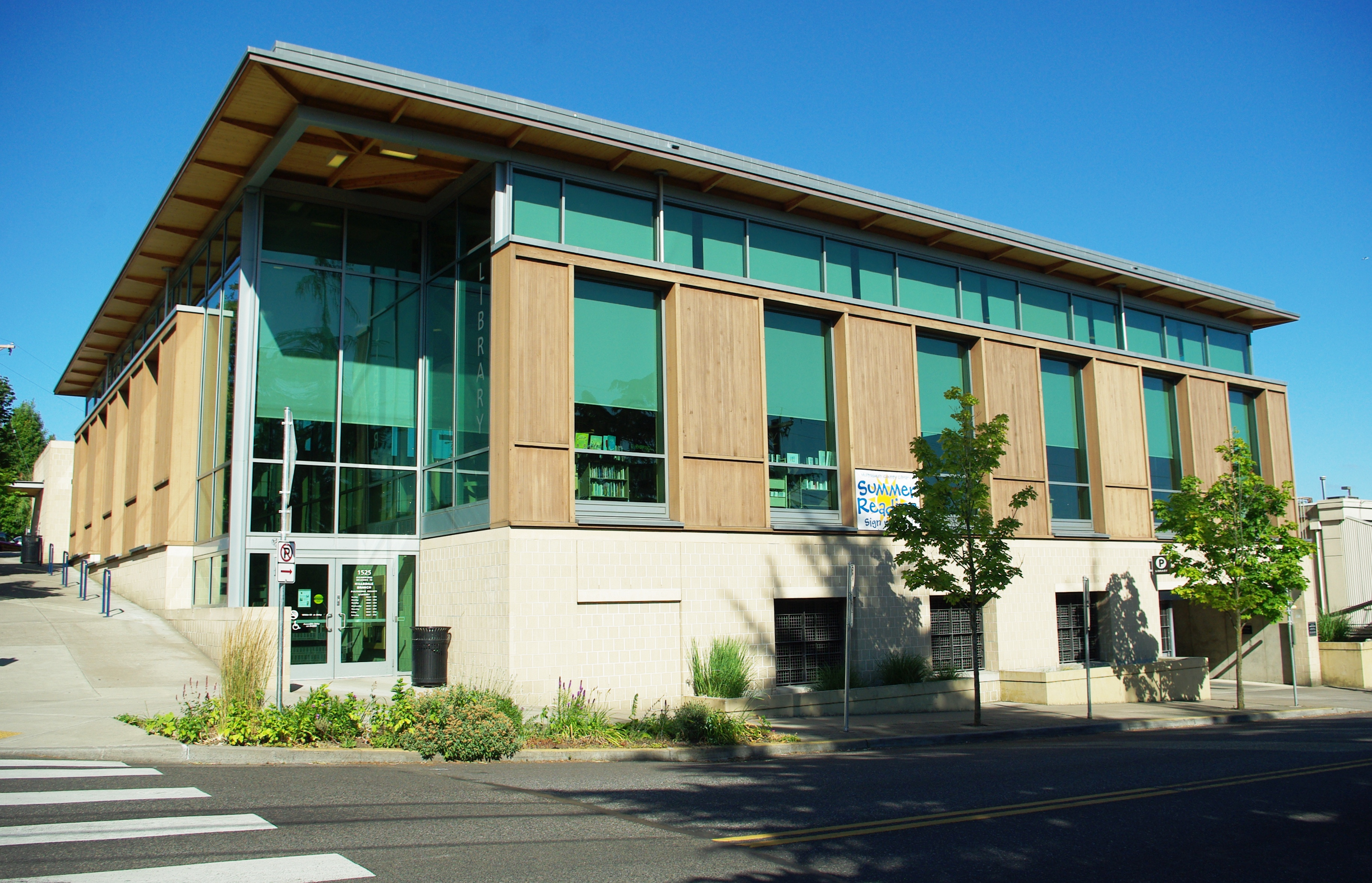 Multnomah County Libraries' Hillsdale branch.